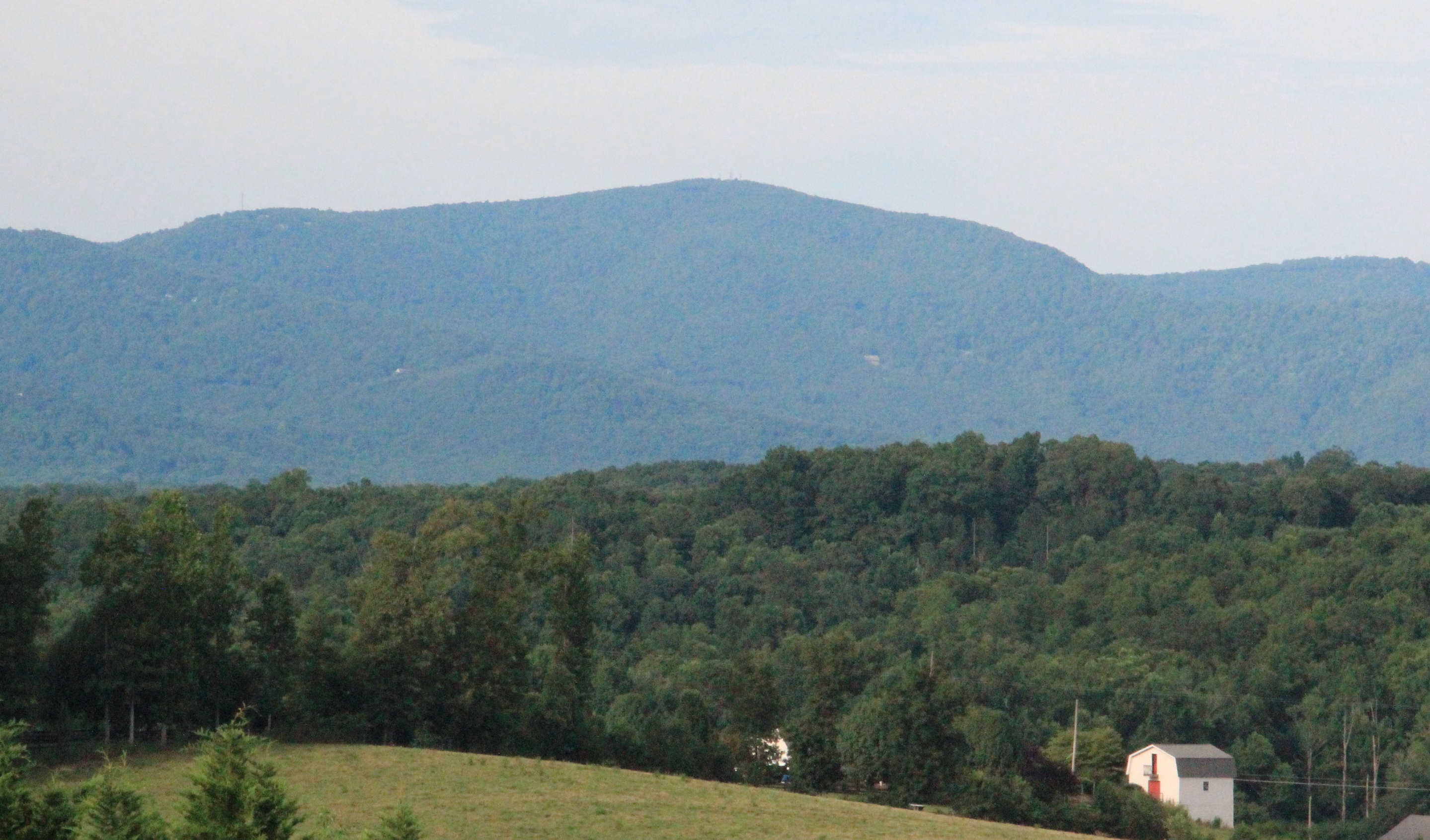 Mount Oglethorpe in July 2015